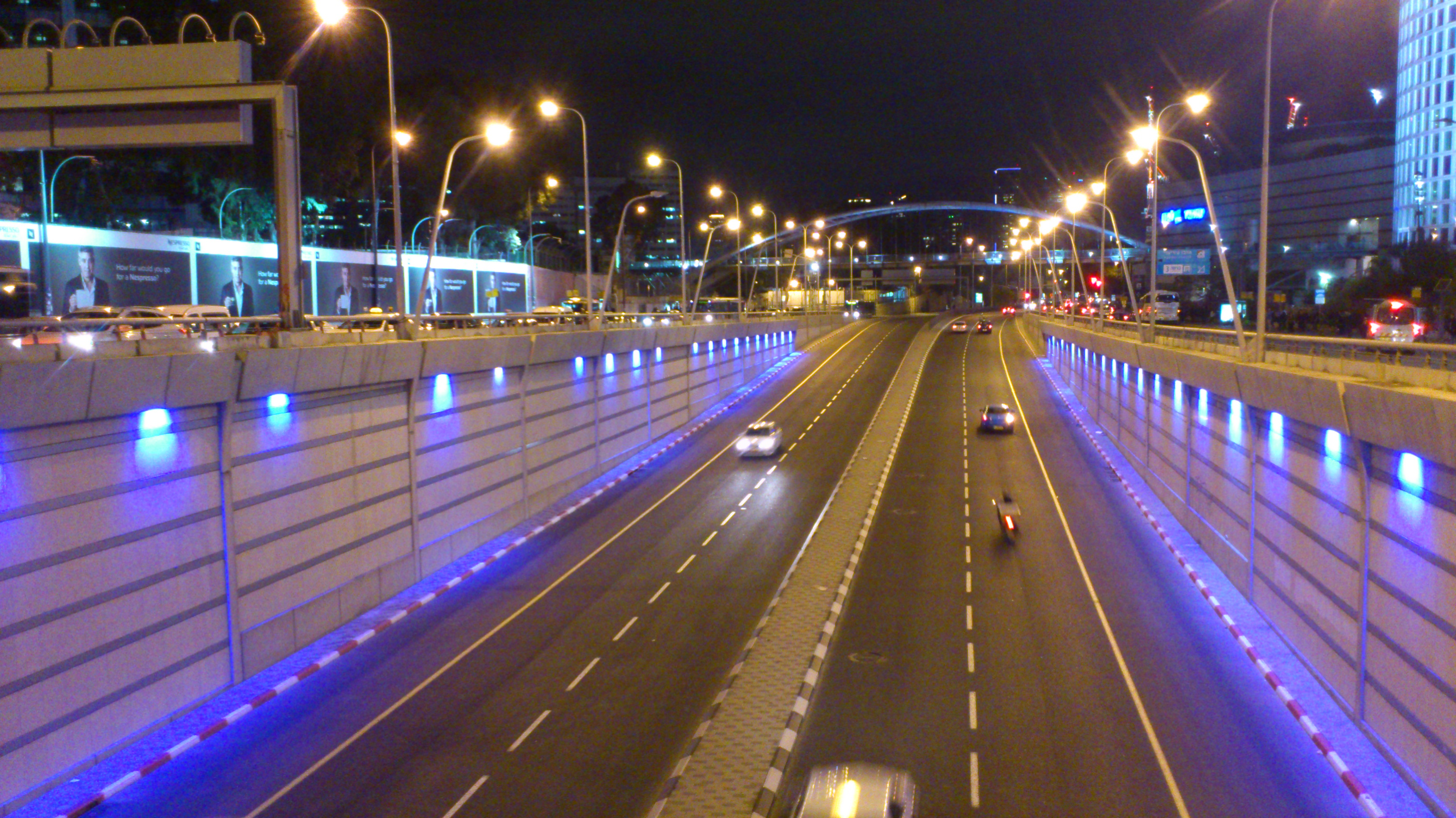 Category:Azriely Bridge